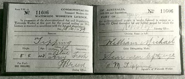 A license issued to a waterfront worker under the Transportation Workers Act in 1929